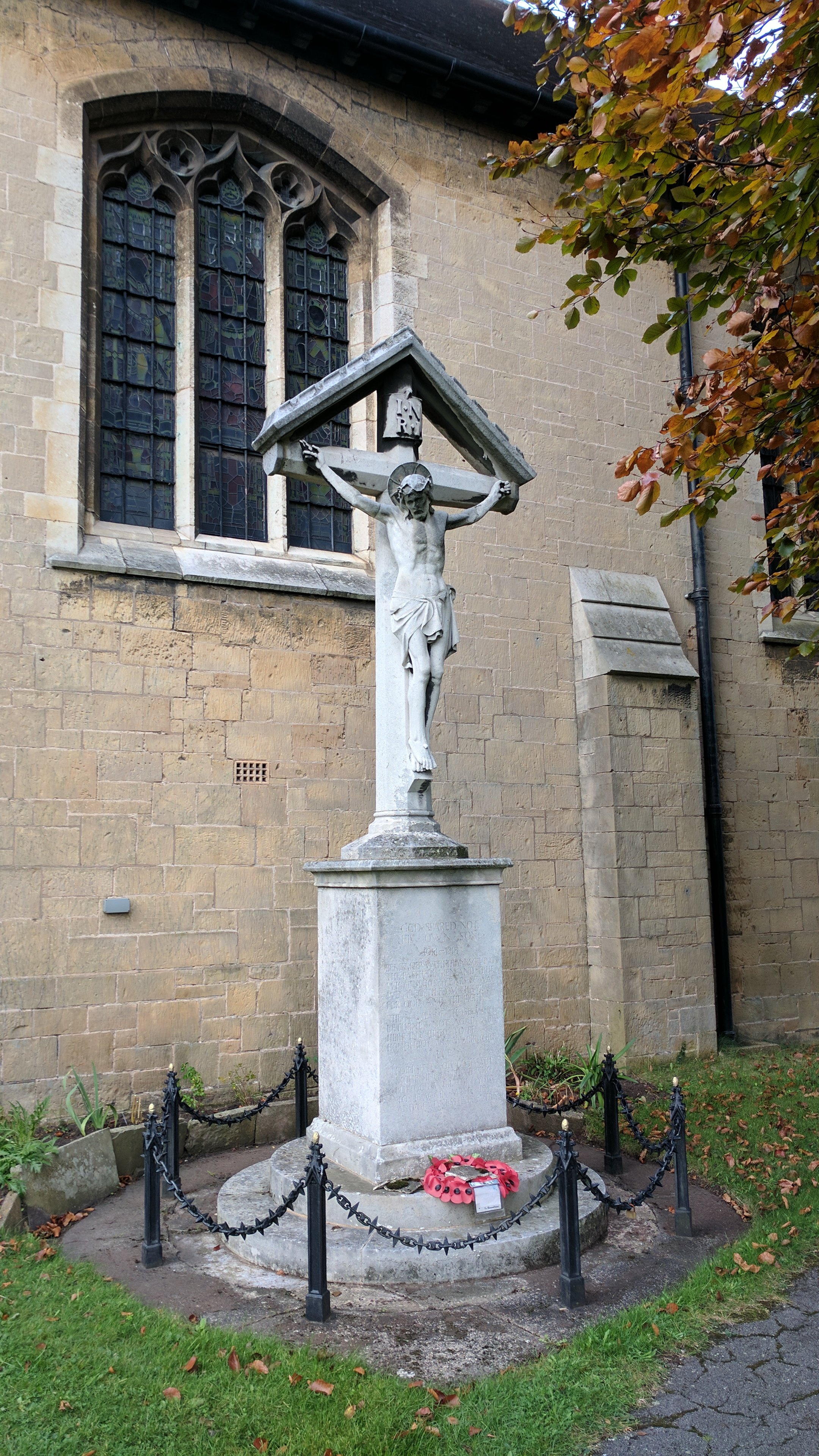 War Memorial And Railings 1 Metre South Of Church Of St Mark Wikidata has entry Q26502347 with data related to this item.